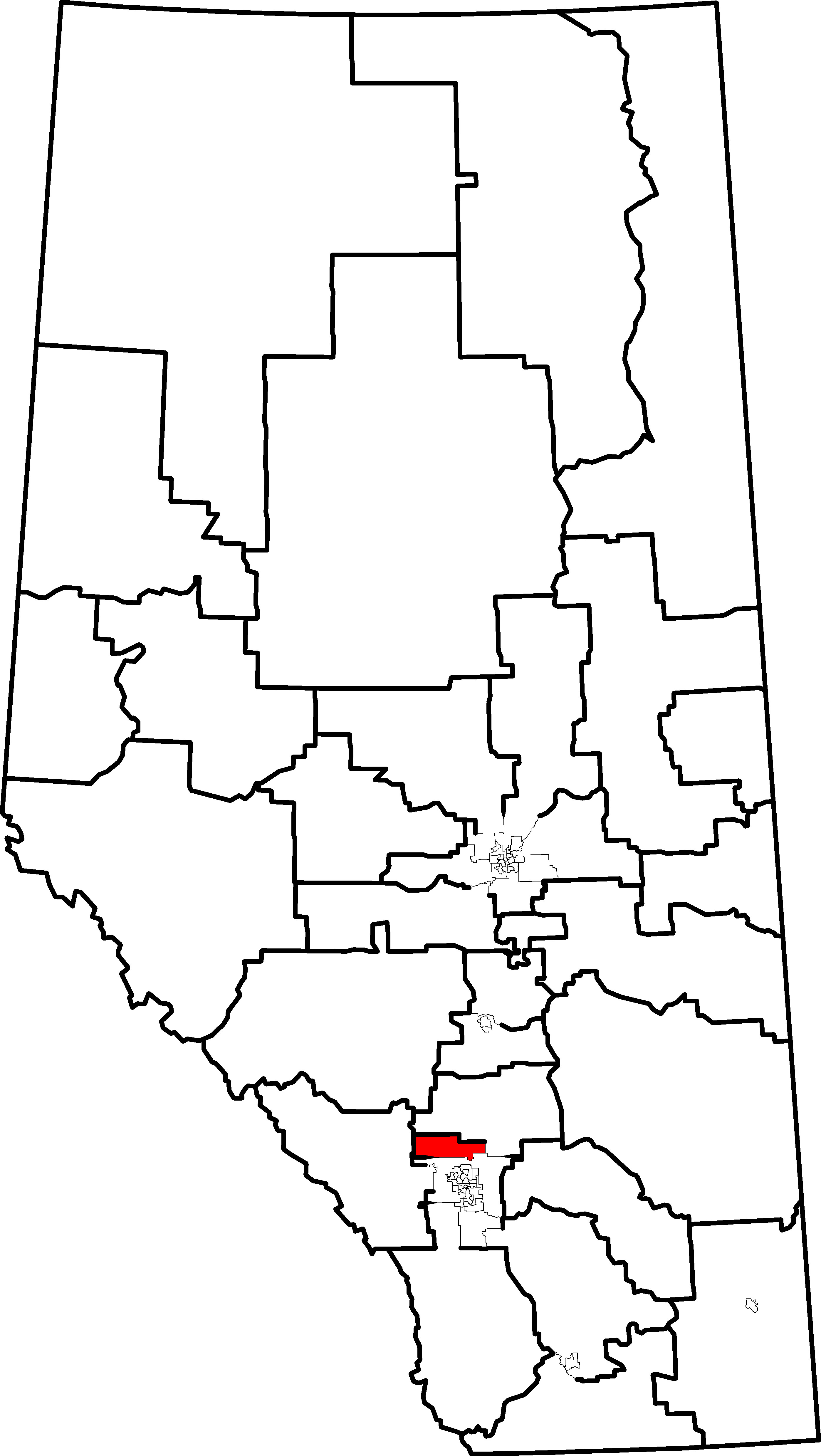 A map of the Alberta provincial electoral districts, effective 2010. Airdrie is highlighted in red.